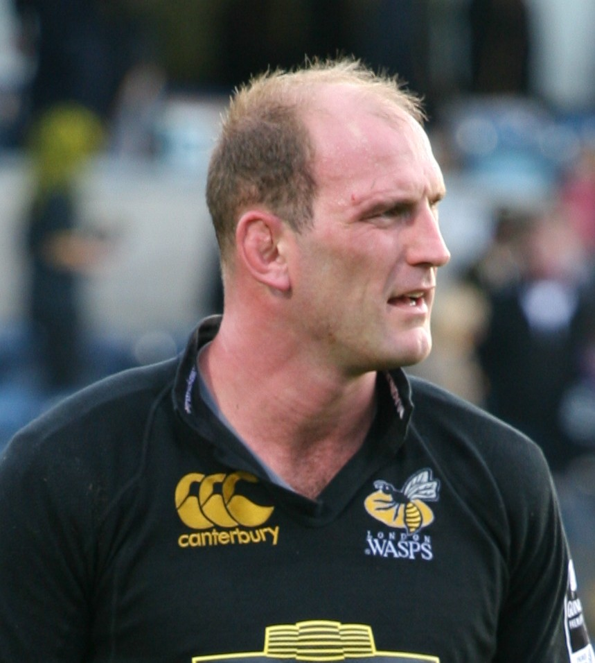 England Rugby Union Player Lawrence DallaglioLawrence Dallaglio